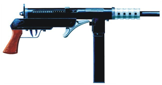 Błyskawica, a Polish WWII machine pistol designed and produced in German-occupied Poland for use by the Polish resistance